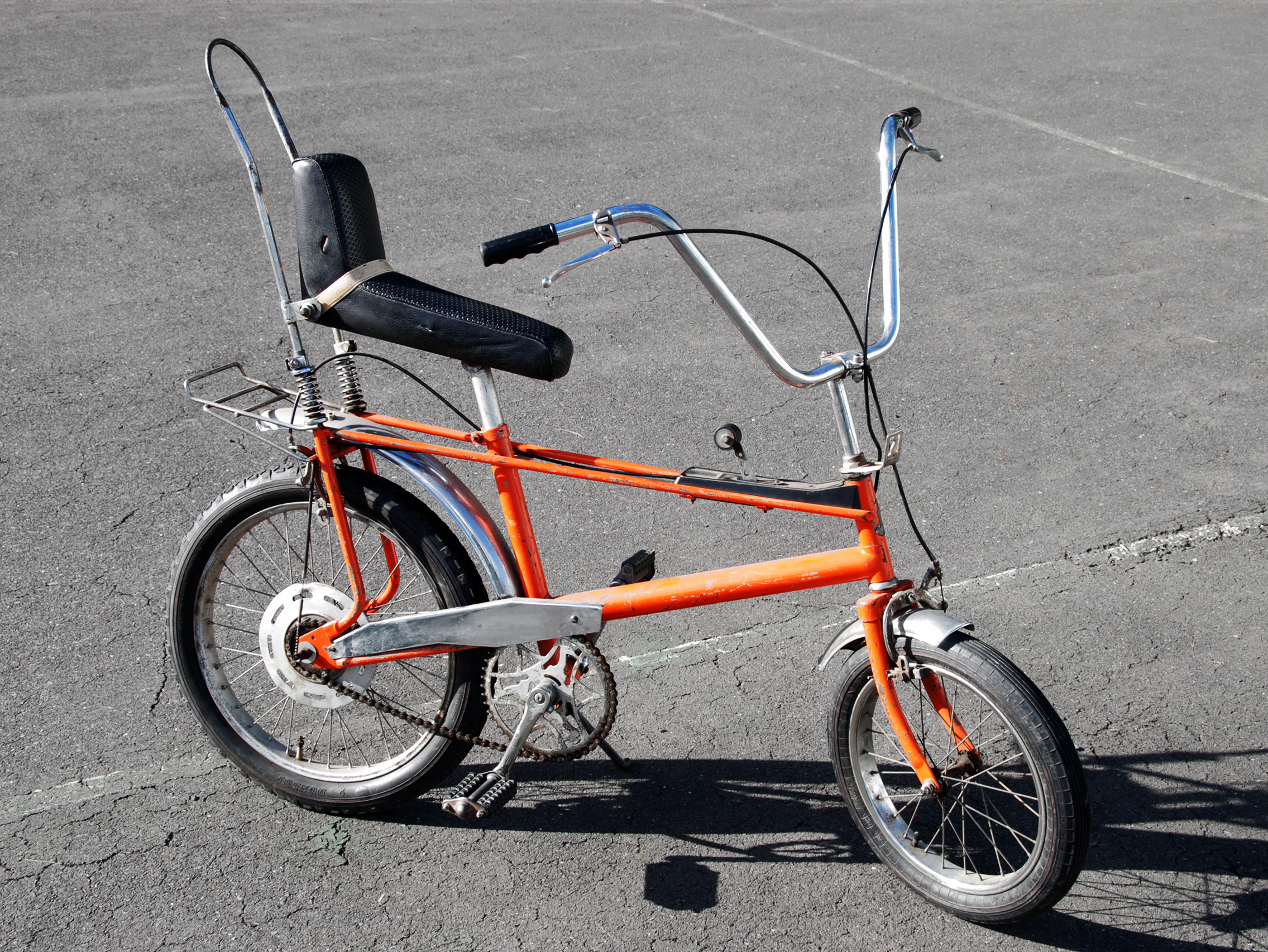 Unrestored Raleigh Chopper bicycle.